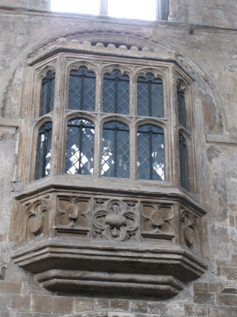 Prior Bolton's oriel window in the priory church of St Bartholomew the Great, London.The symbol cut in the stone in the centre panel below the window is a crossbow bolt (vertical) passing through a barrel or tun - hence a pun on the Prior's name. Installed inside the church of St Bartholomew the Great in the 16th century by William Bolton, allegedly so that he could spy on the monks.